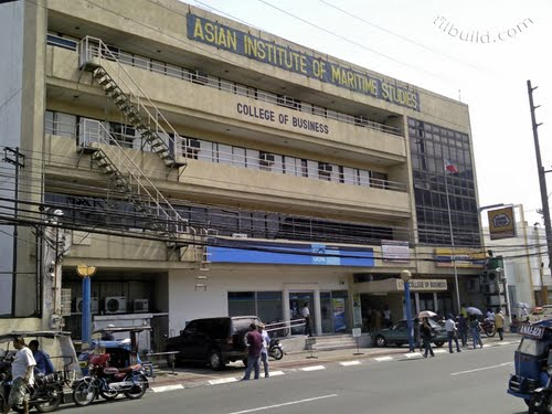 AIMS College of Business Building